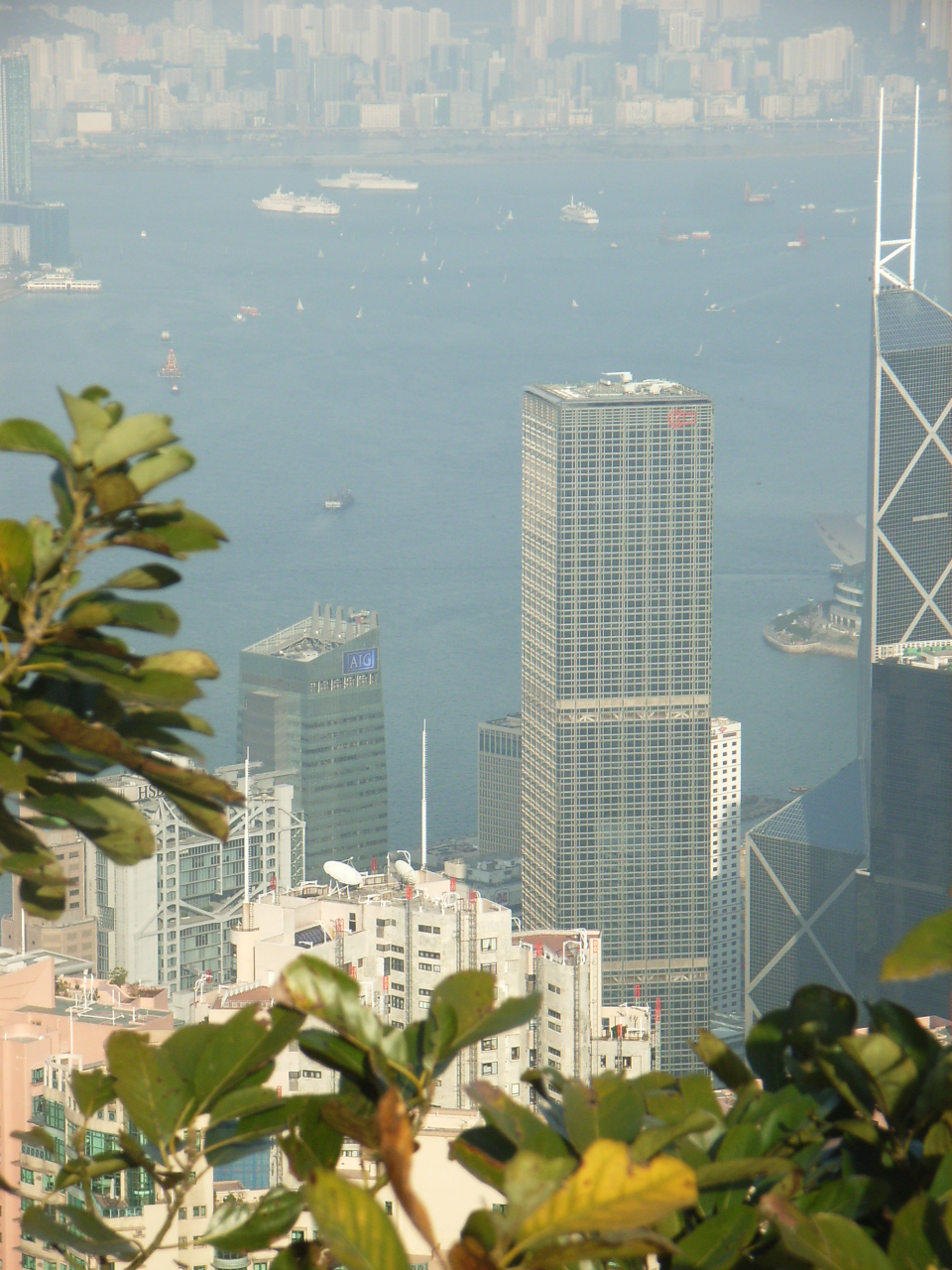 AIG Tower & Cheung Kong Centre, Mount Austin Road Pavillion view, Victoria Peak, Hong Kong Photographer and author is ParkerStarS.